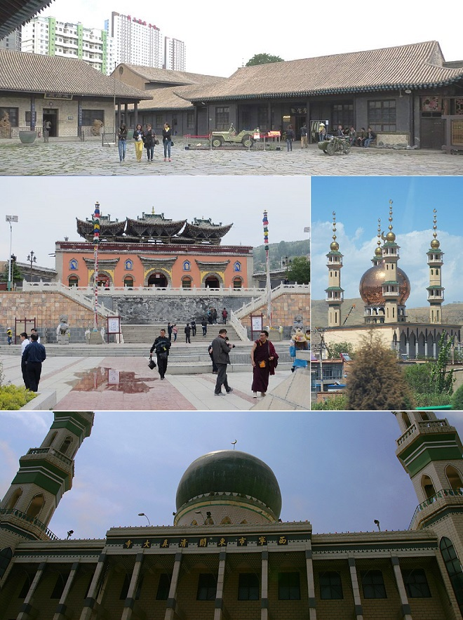 Xining, capital of Qinghai Province. Clockwise from top: Ma Bufang Mansion, Duoba Mosque, Dongguan Mosque, Ta'er Temple.